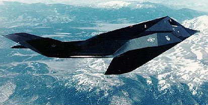 Lockheed F-117A in flight